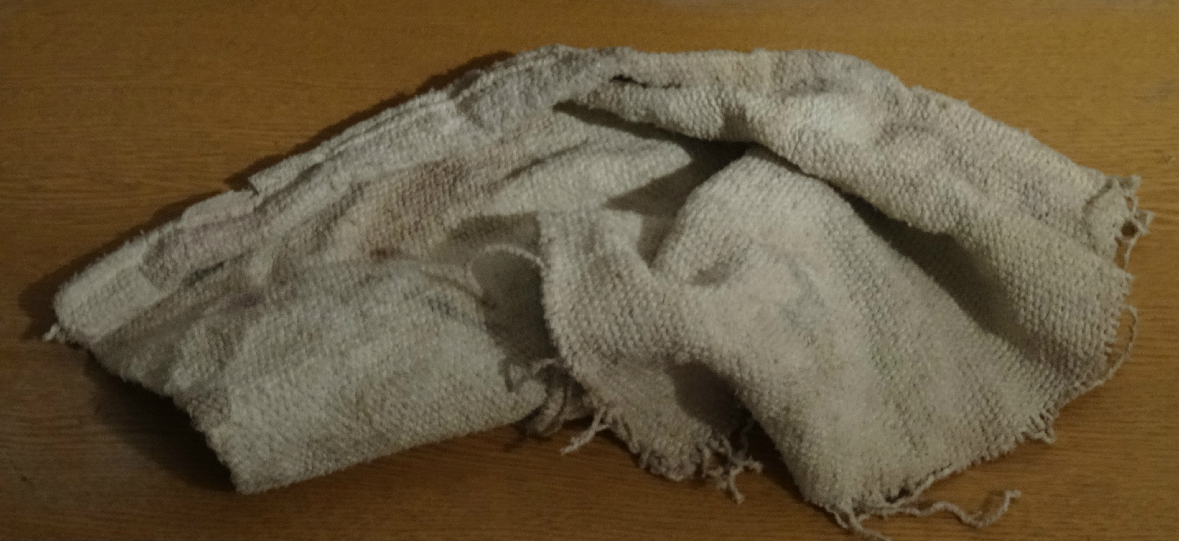 Heat-resistant asbestos fabric.